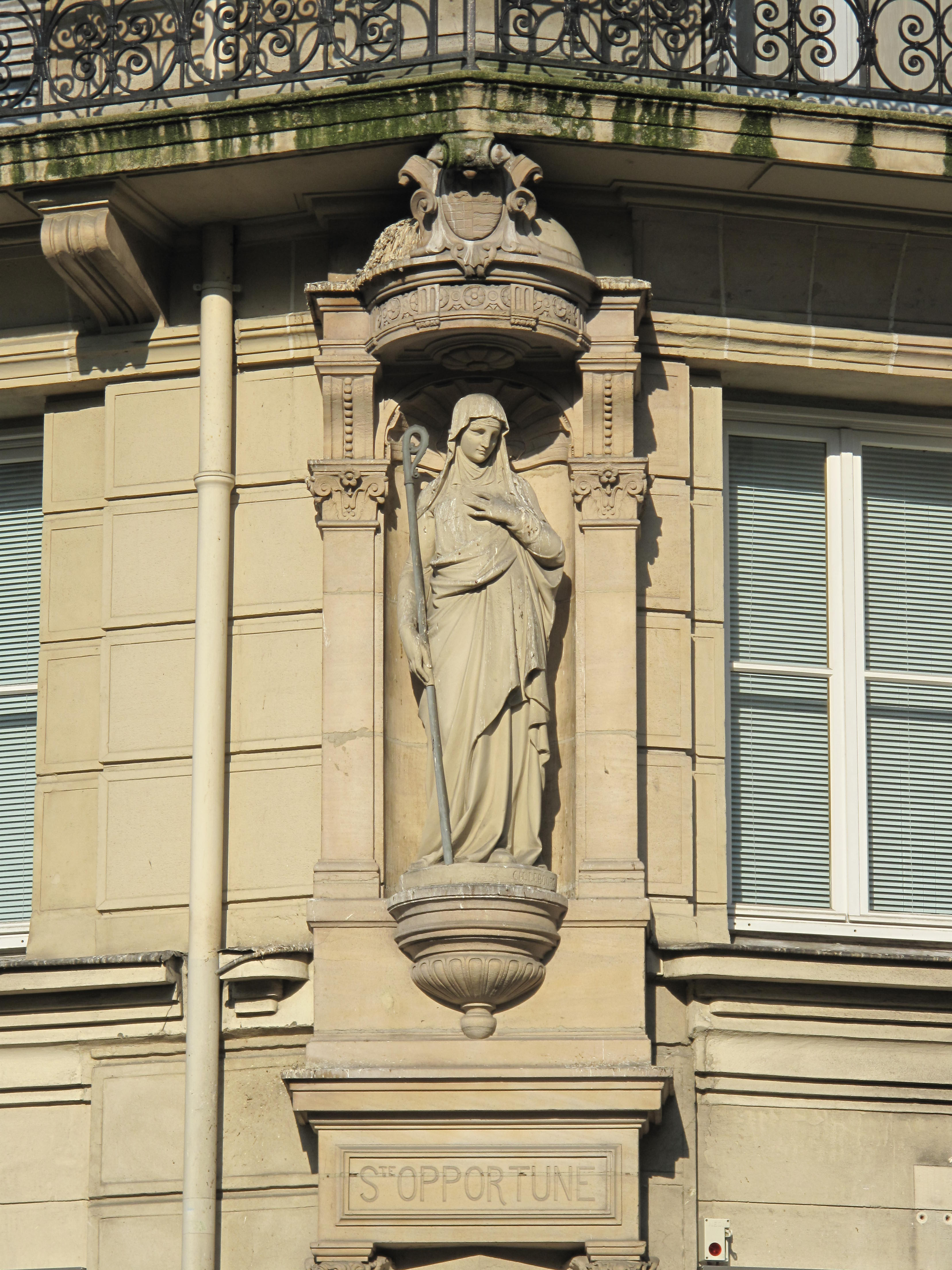 Statue of Sainte-Opportune, rue Sainte-Opportune, Paris 1st arr.